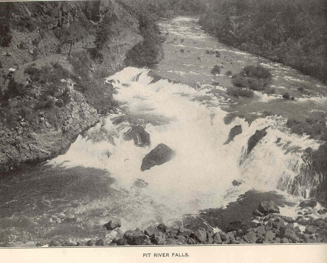 Pit River Falls Subject: Waterfalls--California, Pit River Falls (California) Geographic Subject: United States--California--Pit River Falls Tag: Limnology